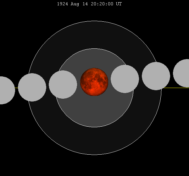 August 1924 lunar eclipse chart of moon's lunar eclipse path through the earth's shadow. thumb